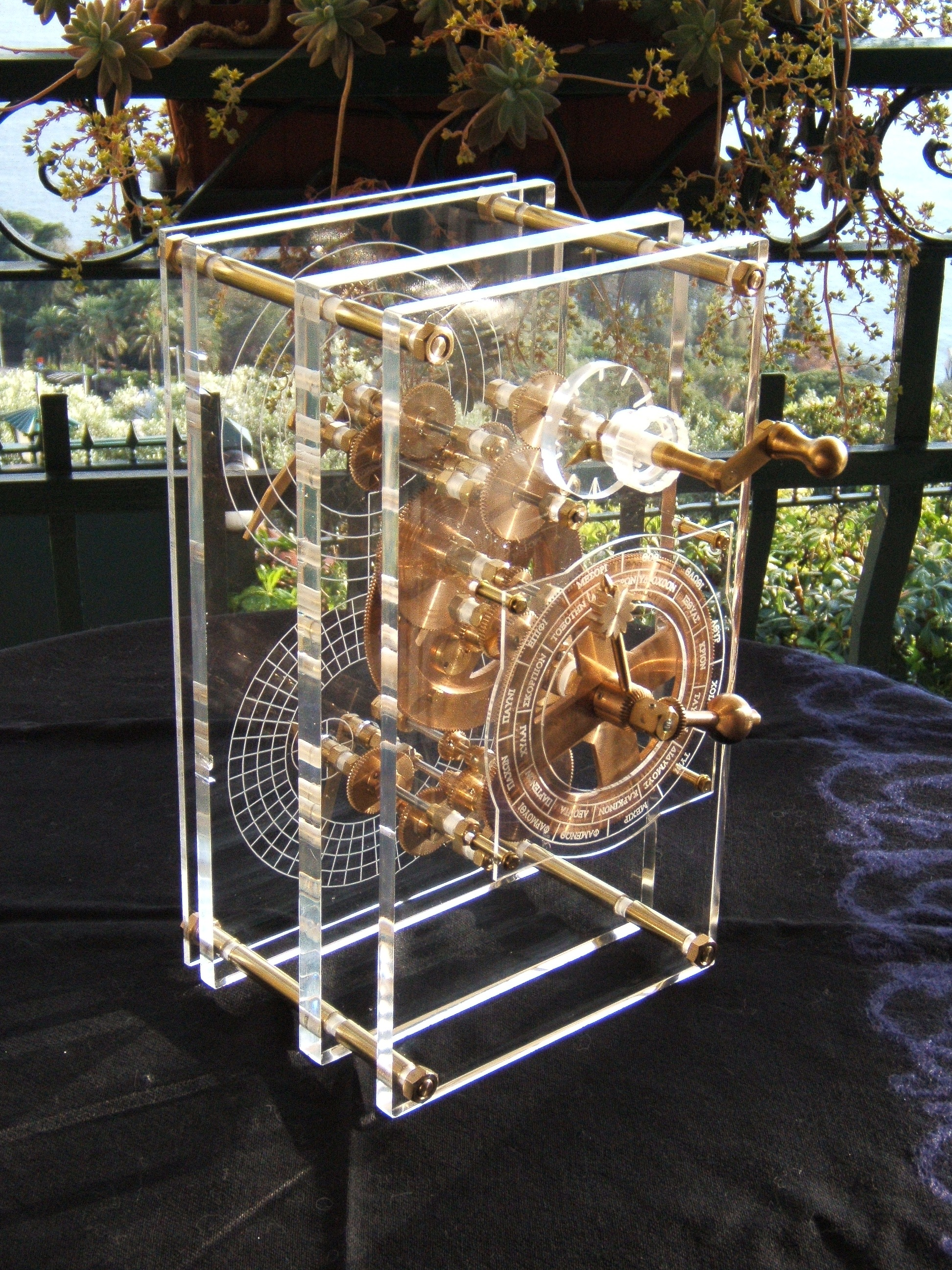 Antikythera Machine mechanical model